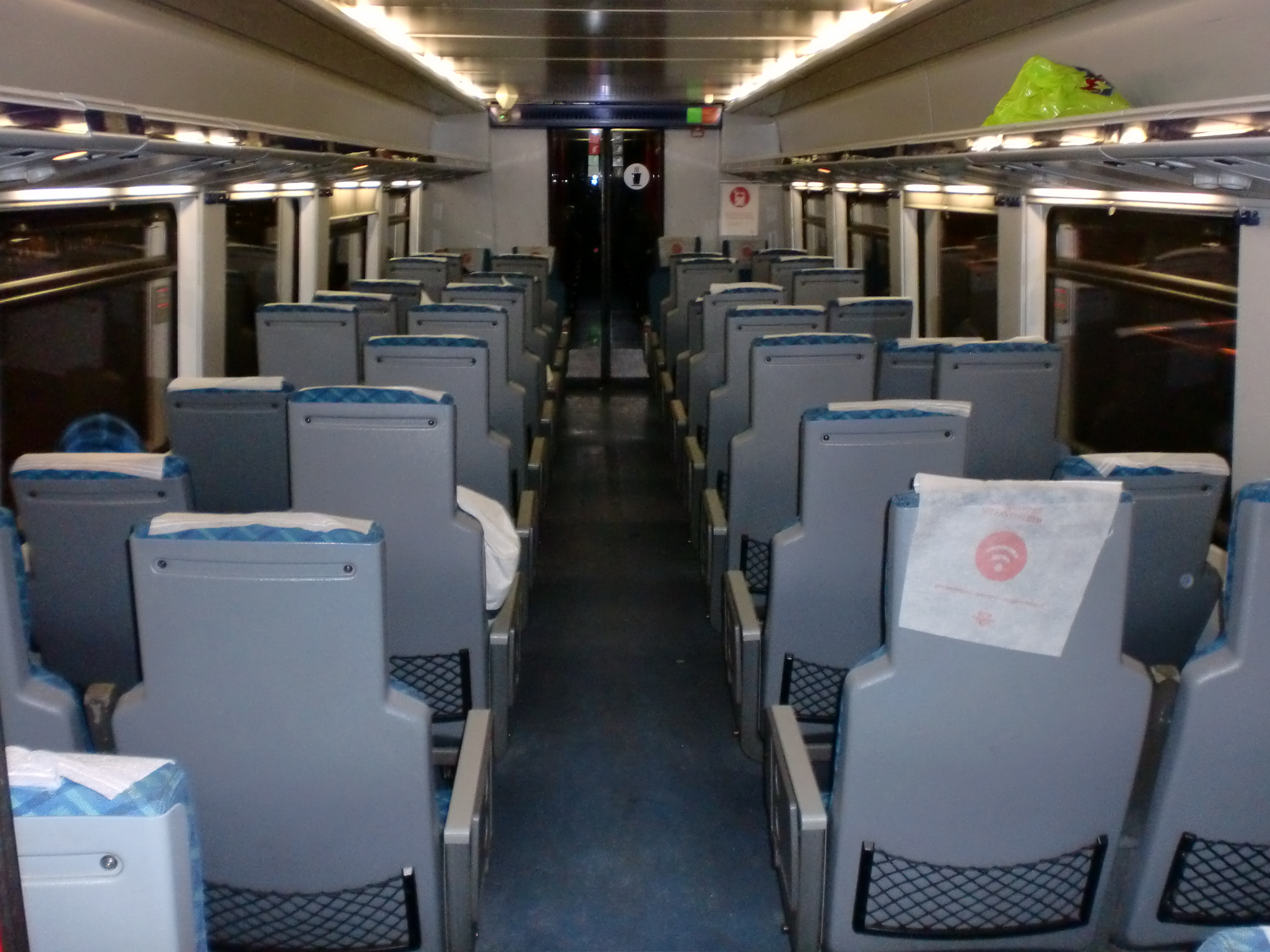 Interior of the BM69078 (D-series). See NSB Class 69